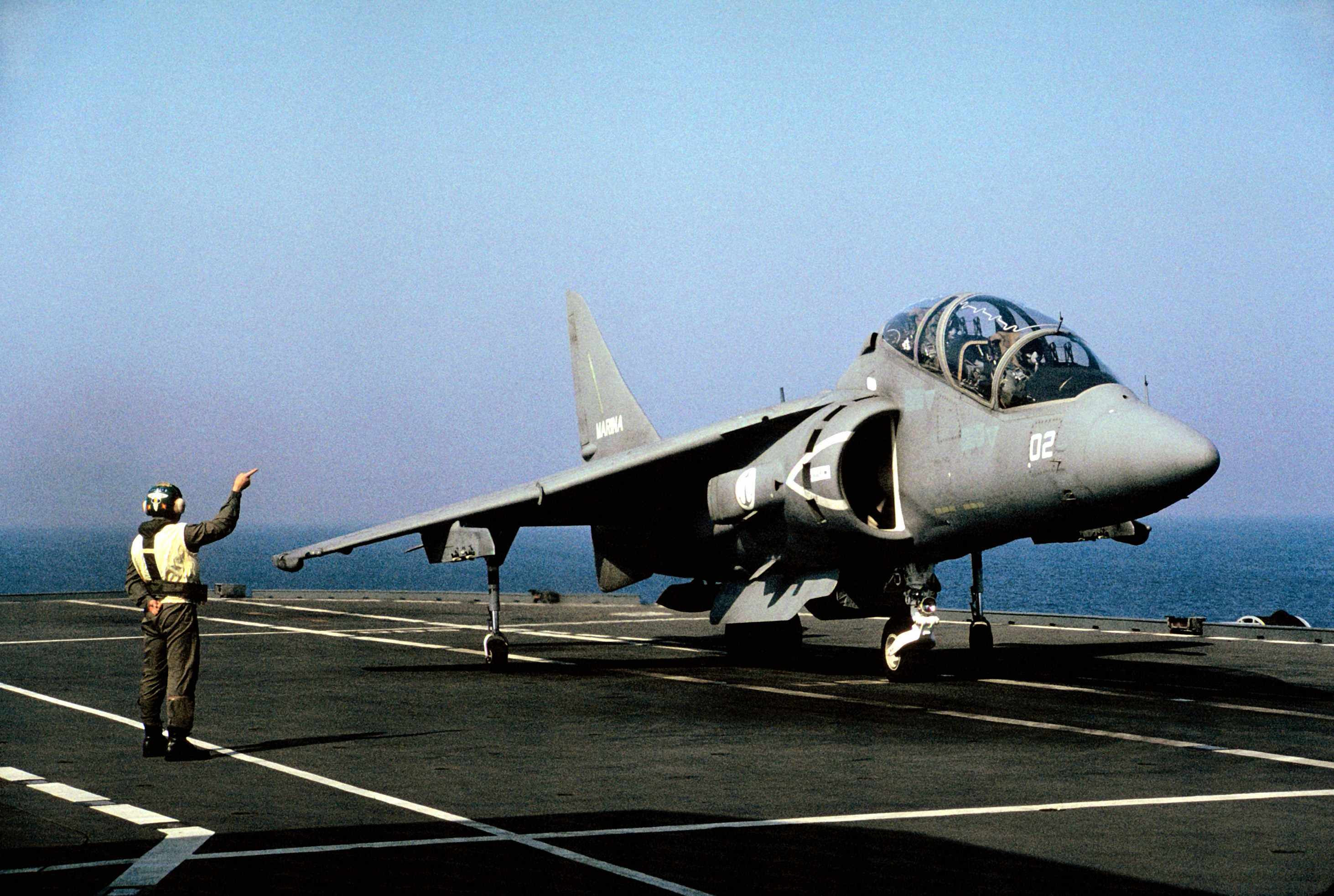 A flight deck crew member signals to the pilot of an Italian TAV-8B Harrier II aircraft aboard the Italian navy's aircraft carrier GUISEPPE GARIBALDI (C-551) as the aircraft takes part in vertical short takeoff and landing operations. The Italian vessel is taking part in the joint exercise Dragon Hammer '92. /Service Depicted: Other Service / Operation / Series: DRAGON HAMMER `92